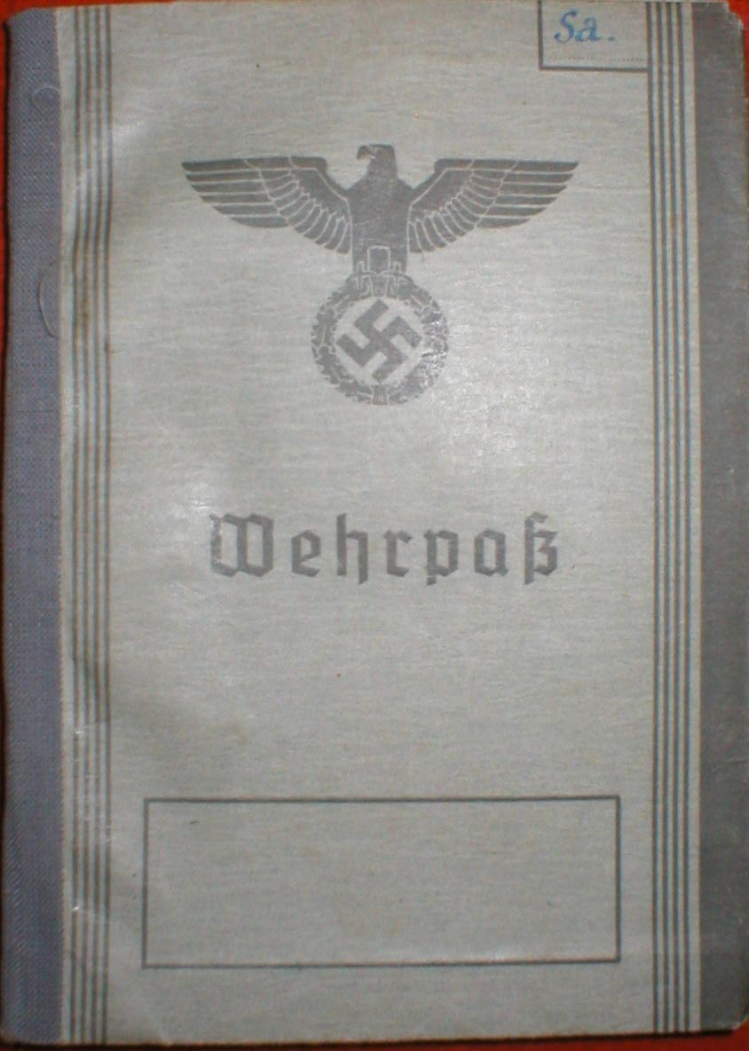 Wehrpass of Third Reich - Military ID book